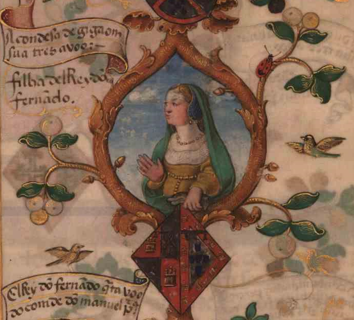 Miniatura representativa de Isabel de Portugal, Condessa de Gijón e Noronha (1364-1435)